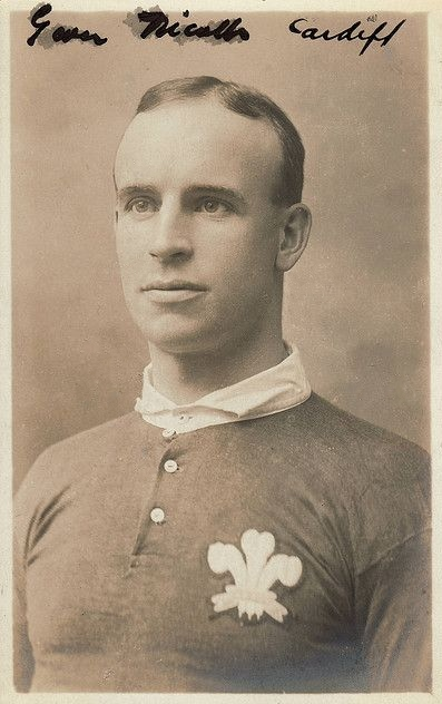 Wales and British Isles international rugby union player Gwyn Nicholls (1874-1939) in Wales jersey.